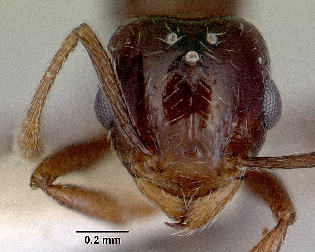 Head view of ant Rhoptromyrmex melleus specimen casent0172461.